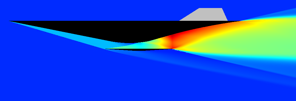 Temperature distribution in and around a scramjet vehicle using a SERN nozzle.